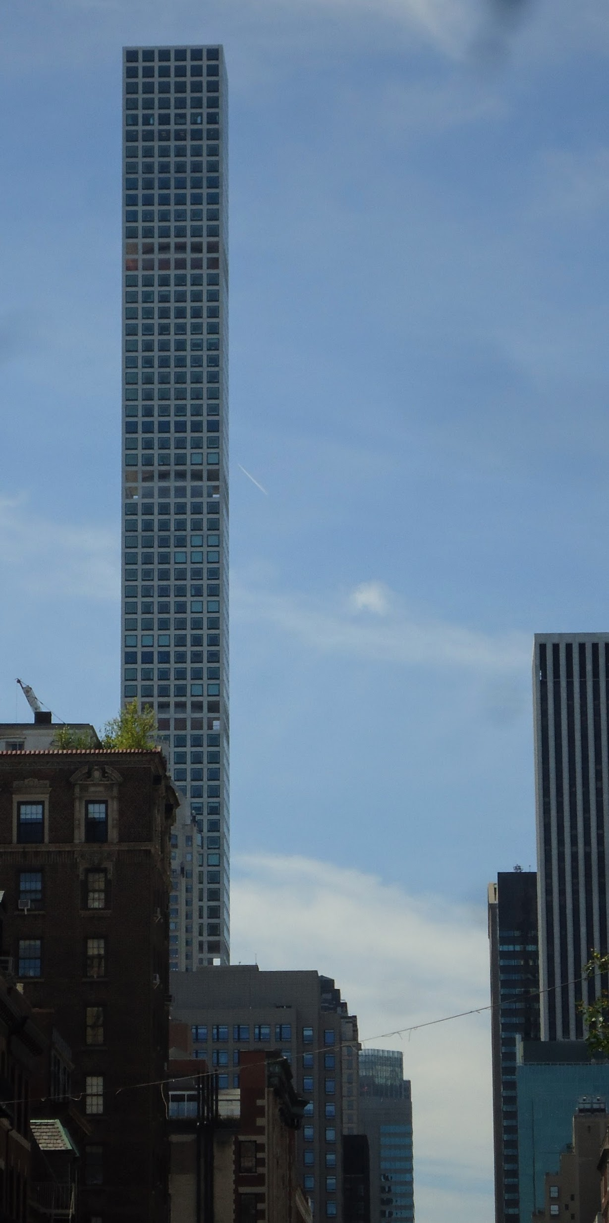 This thin 'skyscraper' or thinscraper is along Madison Avenue in Manhattan, looks to be only about 6 windows "wide" as it rises above the city.